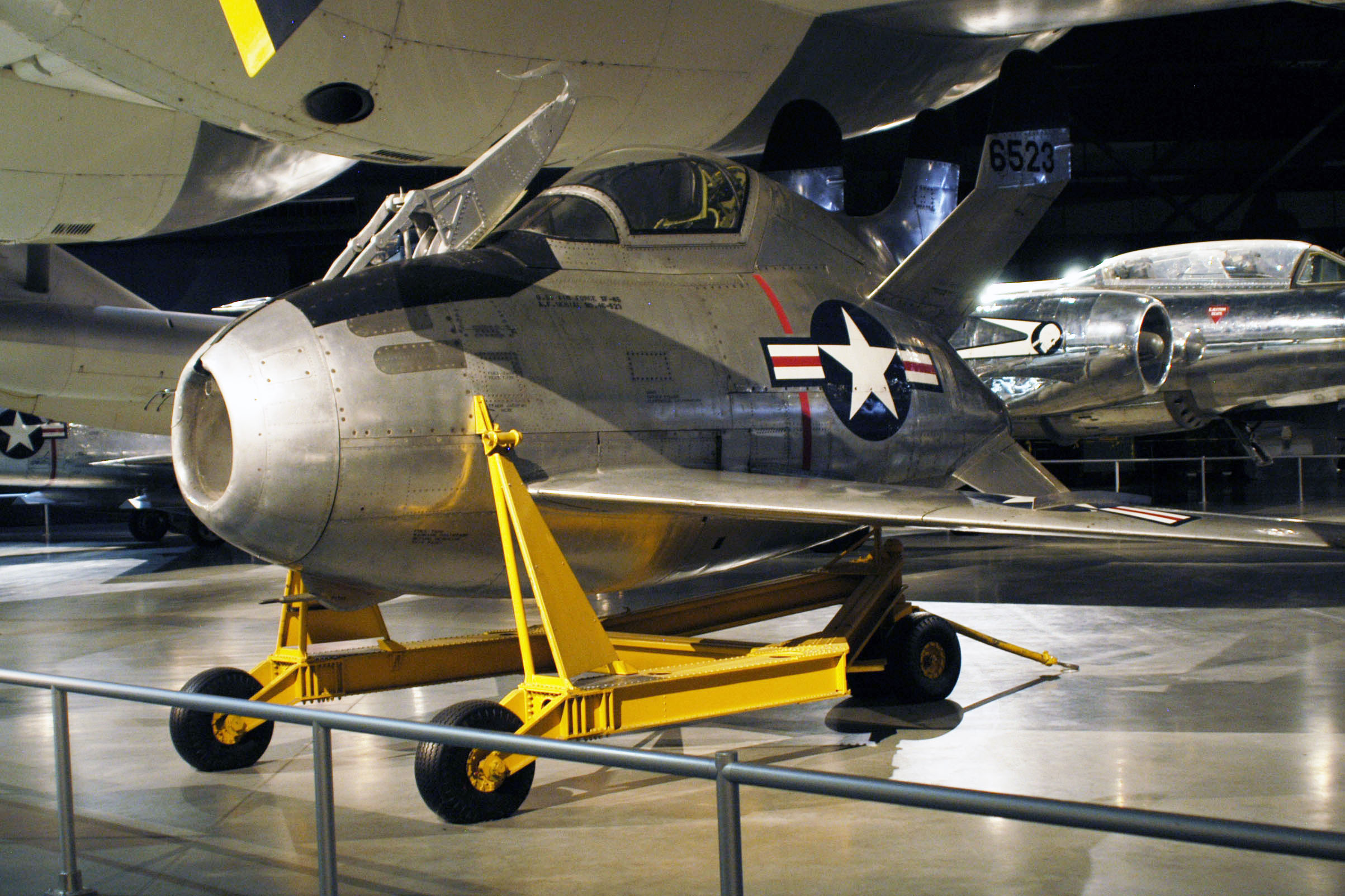 DAYTON, Ohio -- McDonnell XF-85 Goblin in the Cold War Gallery at the National Museum of the United States Air Force. (U.S. Air Force photo)